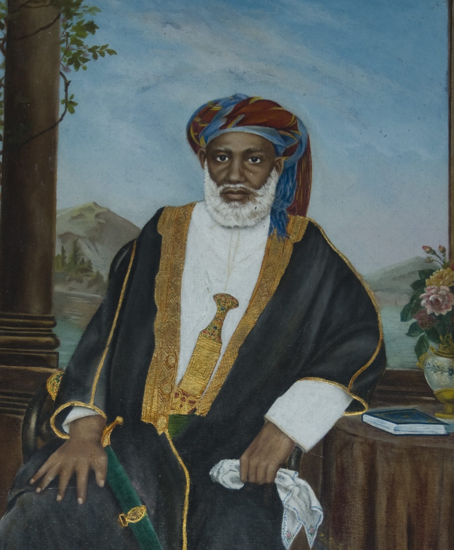 Portrait of Hamed bin Mohammed bin Juma bin Rajab bin Mohammed bin Said el Murgebi Known as Tippu Tip a Zanzibari Slave trader. This is a picture of a painting of the House of Wonders museum Stone town Zanzibar